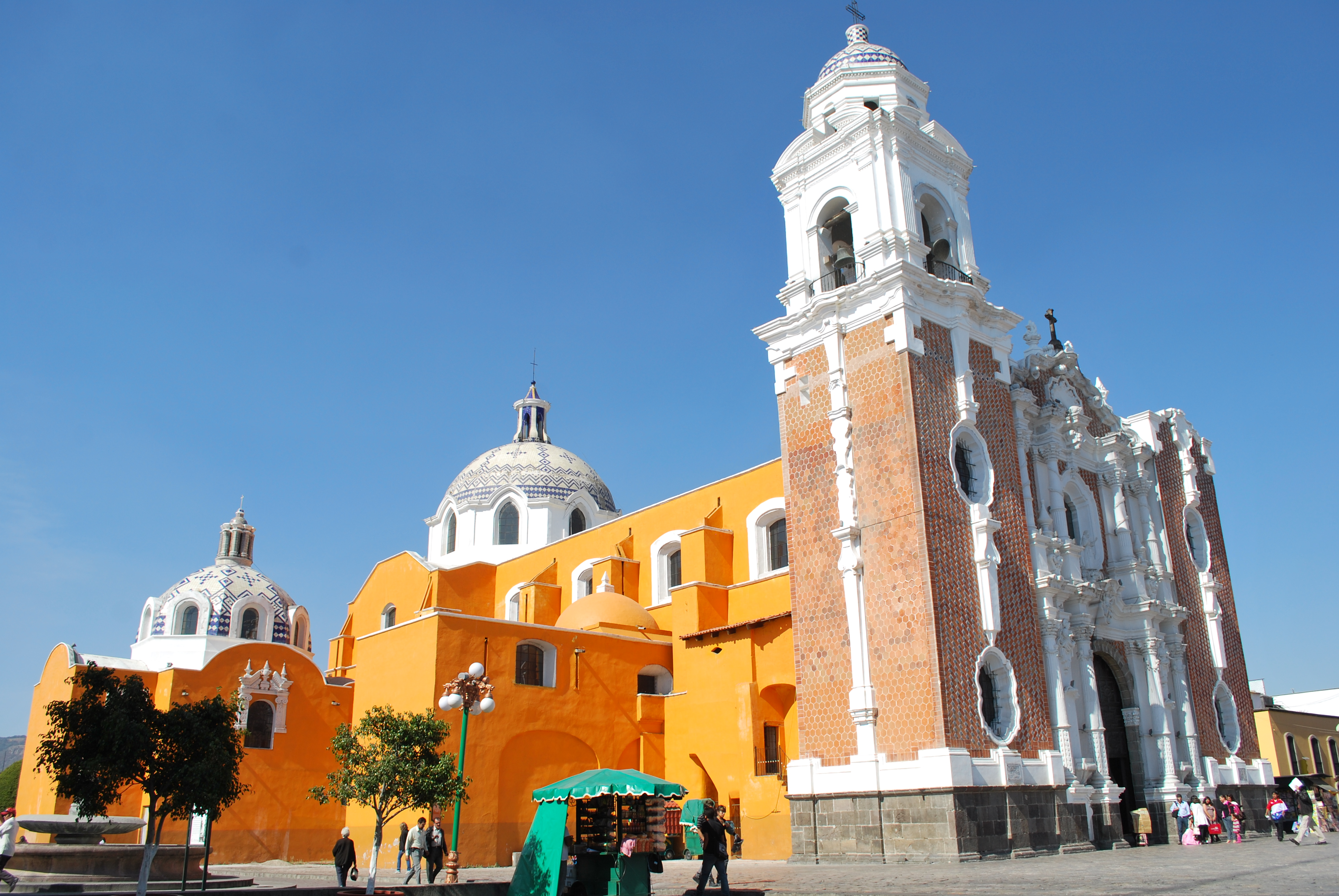 View of the San Jose parish in Tlaxcala, Mexico